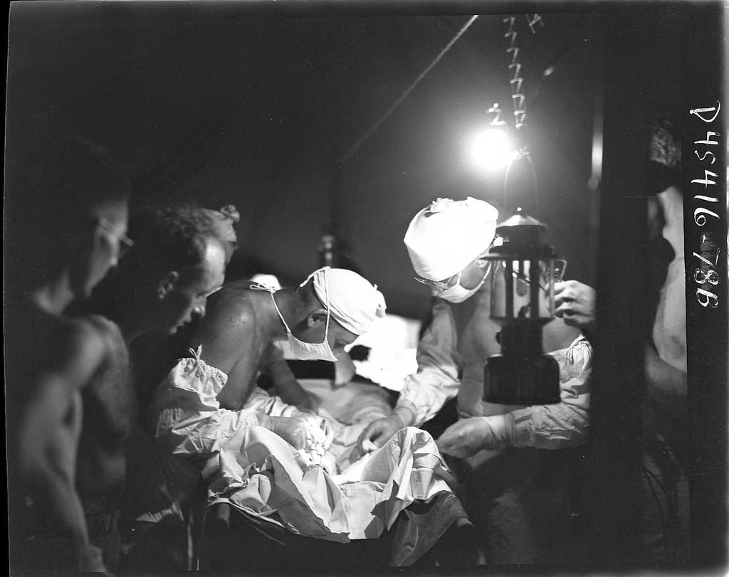 J-Day + 3. Casts are applied to patient from 163rd Infantry, a casualty from a Japanese landmine explosion. Operating room is at the 8th Portable Surgical Hospital. Albee type orthopedic table was made by Technician 3rd Class Rudolph Henkel (right foreground), a Surgical Technician from Baltimore, Maryland, out of Japanese pipe and ammunition rods, 1 piece from a stove pump, 1 piece from windshield of a Jeep. [Image may be reversed.]~World War 2. Zamboanga. J-Day. Task Force Surgery. Selected by Kathleen.